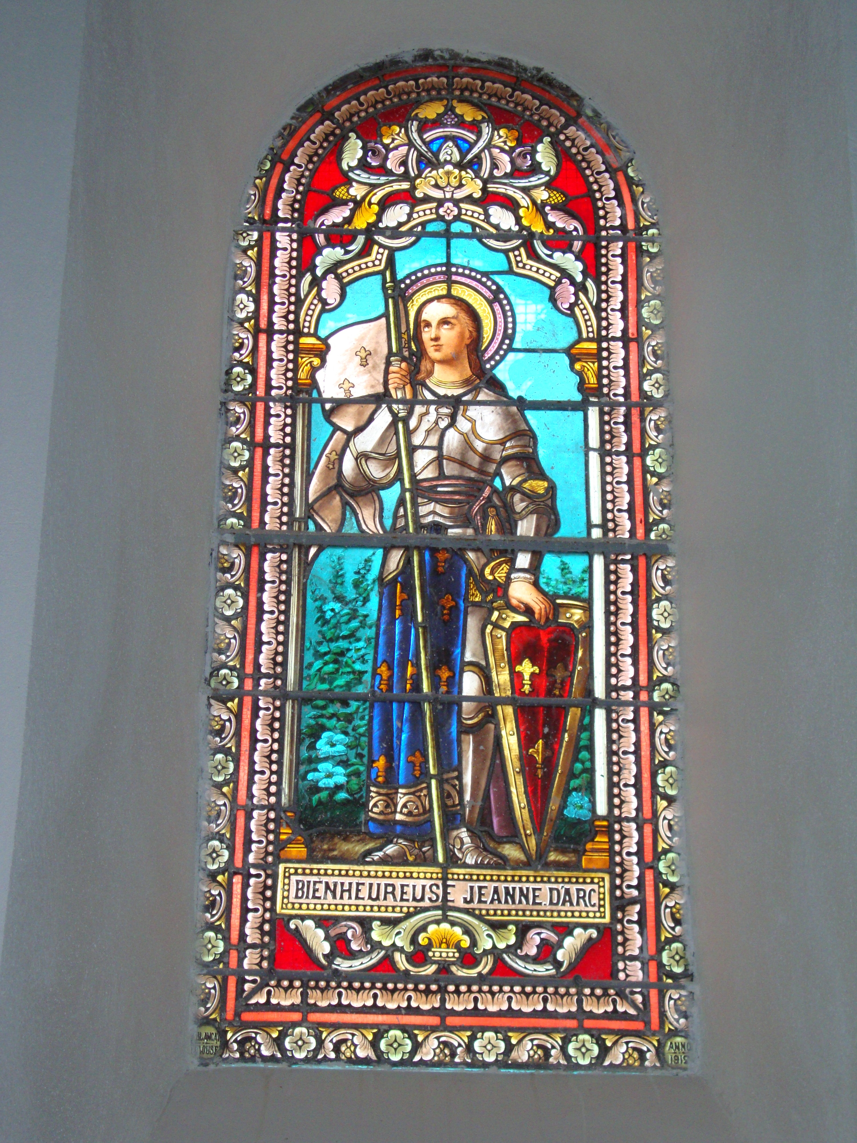 Camou (Camou-Cihigue, Pyr-Atl, Fr) stained glass window of Jeanne d'Arc, Signature: "St. BLANCAT ..."